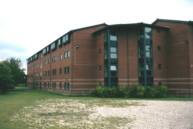 Preston - Roeburn Hall University of Central Lancashire A Hall of Residence off Pedder Street